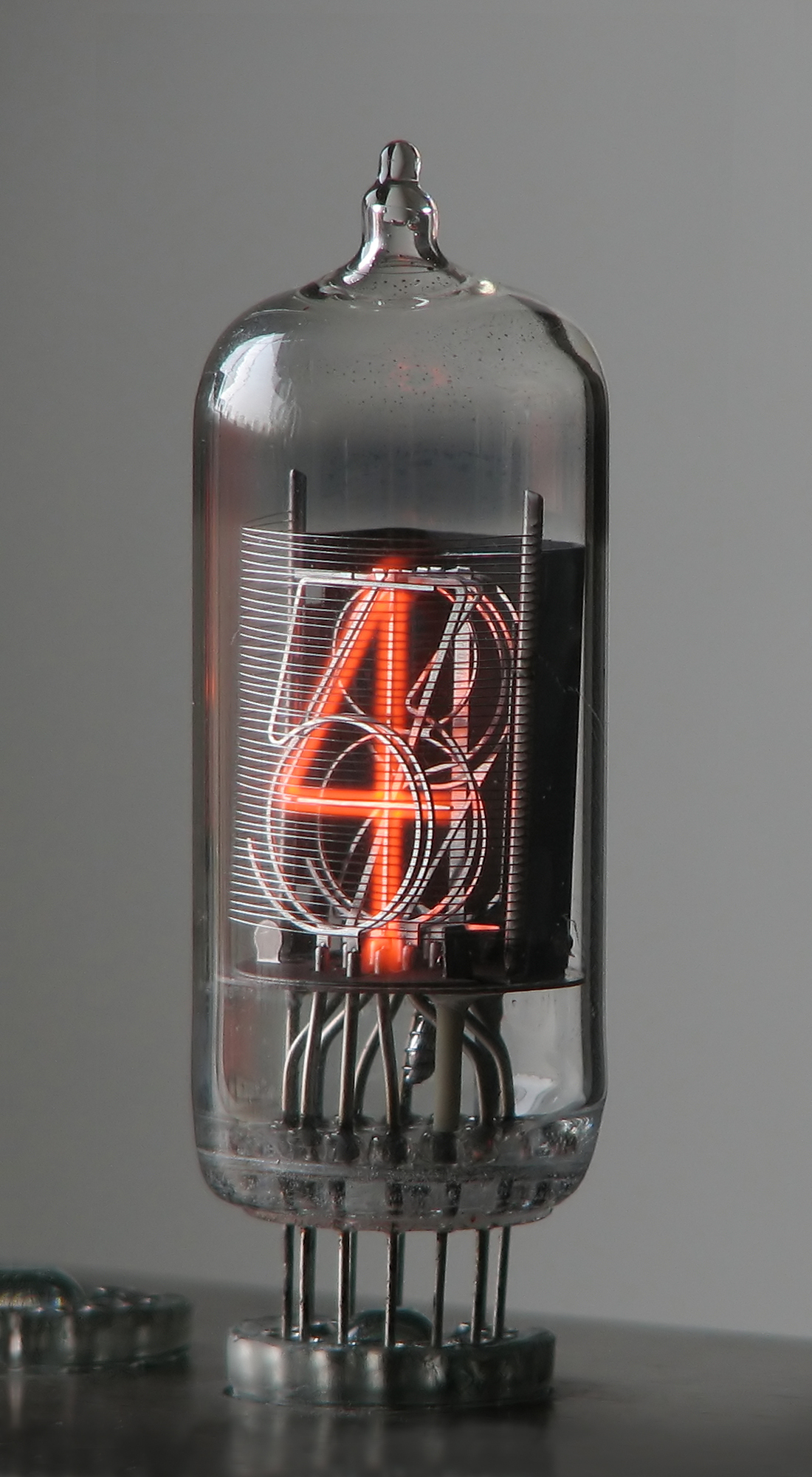 Nixie tube Telefunken ZM1210 (without coating) operating. Diameter: 19mm, digits' height: 15,5mm. The filament in front of the digits is part of the anode. The tube has eleven cathodes: ten of them formed as the digits 0 to 9 and one (in the lower left) as decimal point.